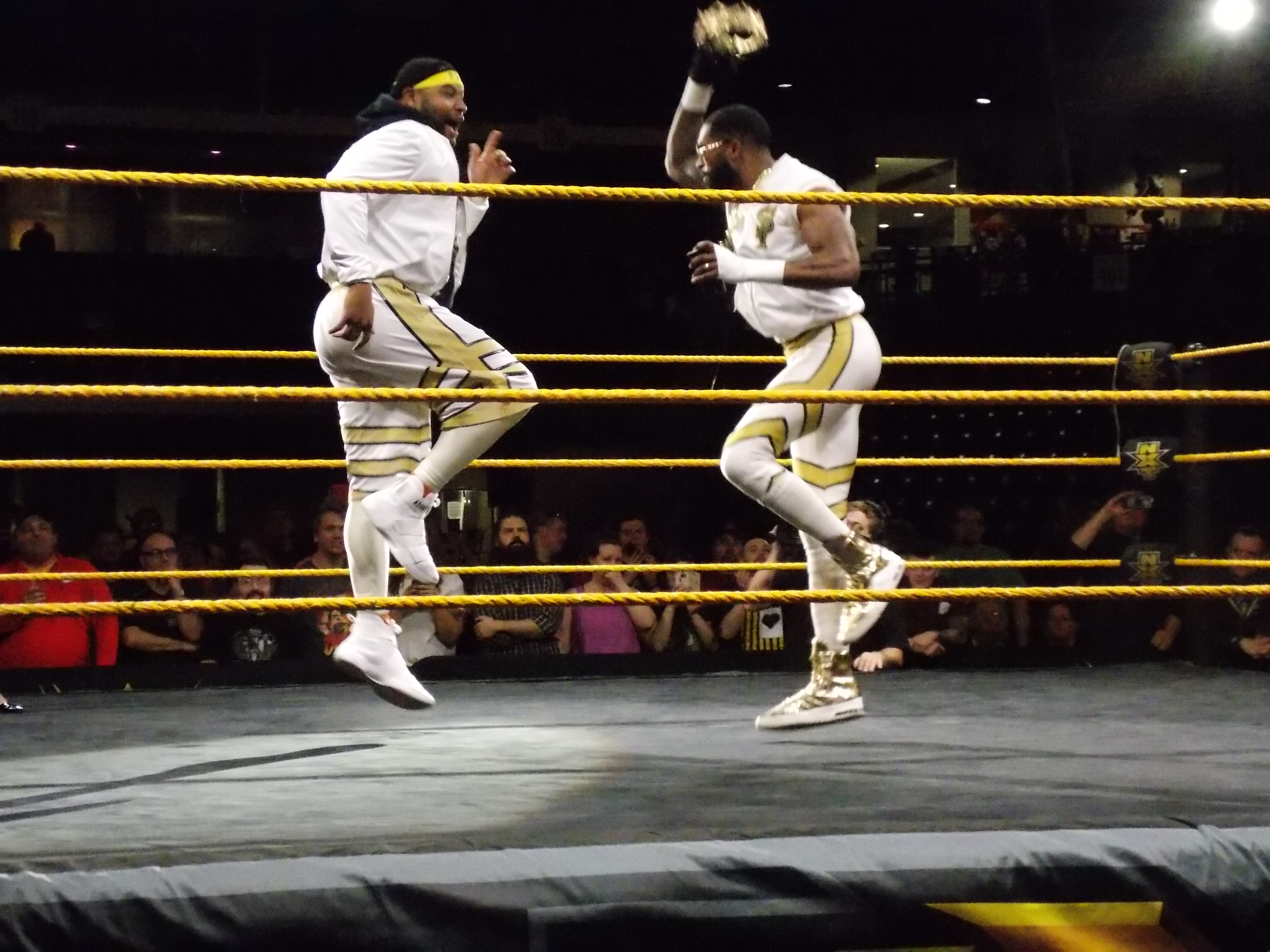 The Street Profits at an NXT Live Event in Omaha, Nebraska, USA on Thursday, April 25, 2019